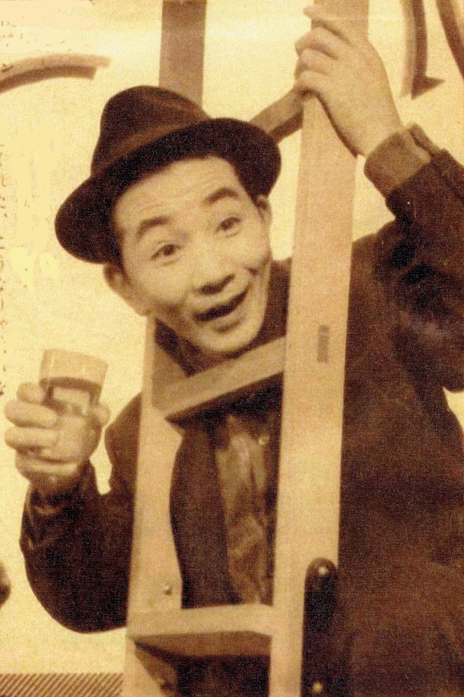 Tōru Yuri